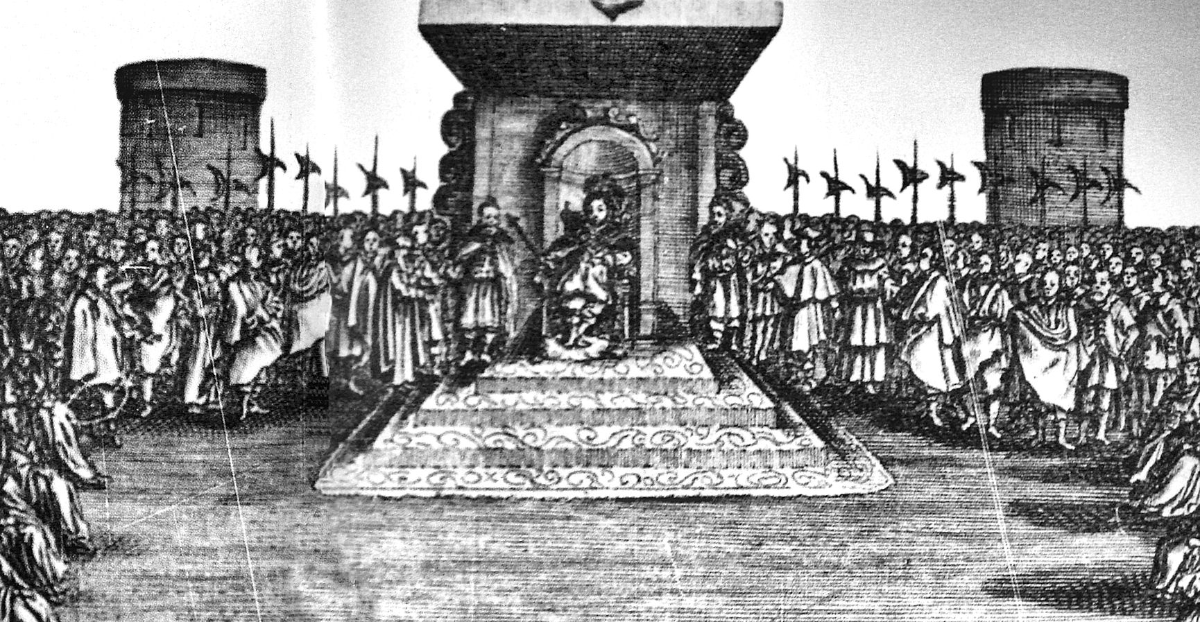 Henri_on_the_throne_in_front_of_the_Polish_Diet